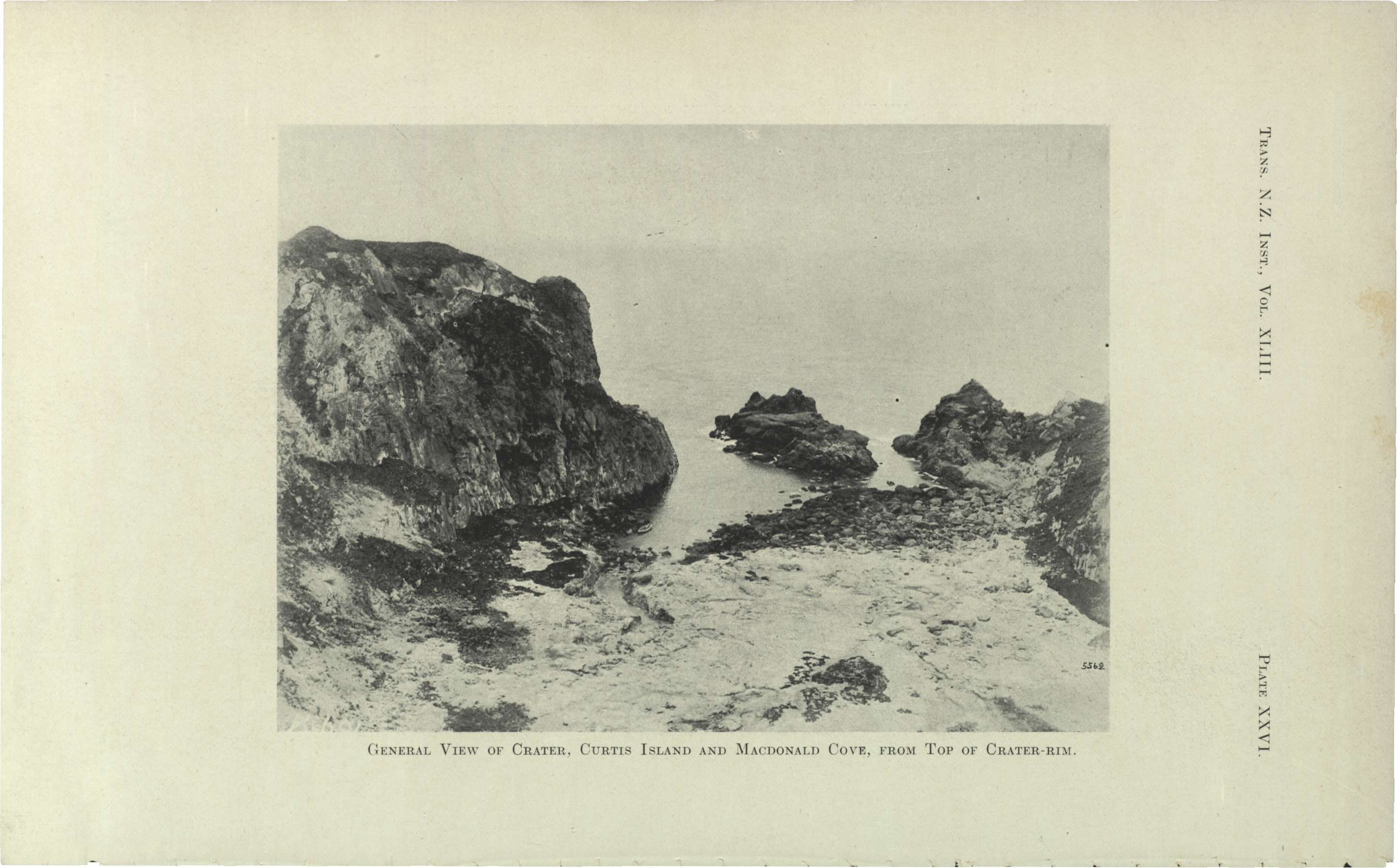 Macdonald Cove in the north of Curtis Island, Kermadec Islands